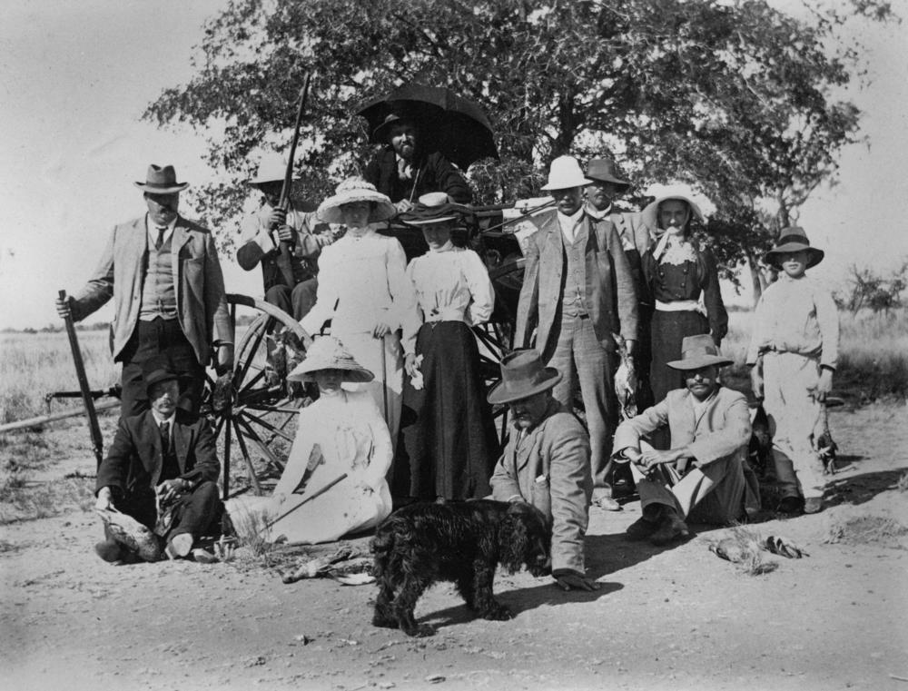 Shooting party at Isis Downs Station, Blackall district, ca. 1905 Men, women and a young boy, along with a dog, are part of this party.